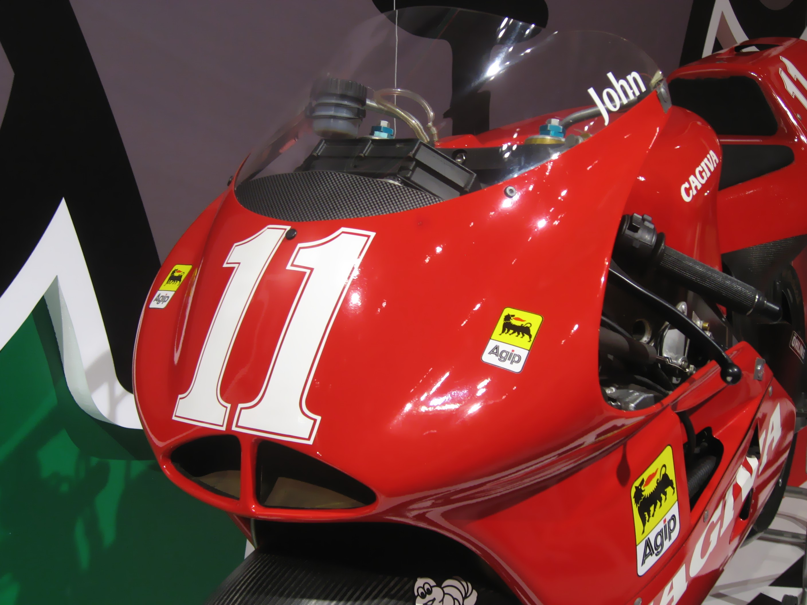 Front of John Kocinski's 1994 Cagiva C594 (Cagiva GP500 series) at 2008 Milan Motorcycle Show.